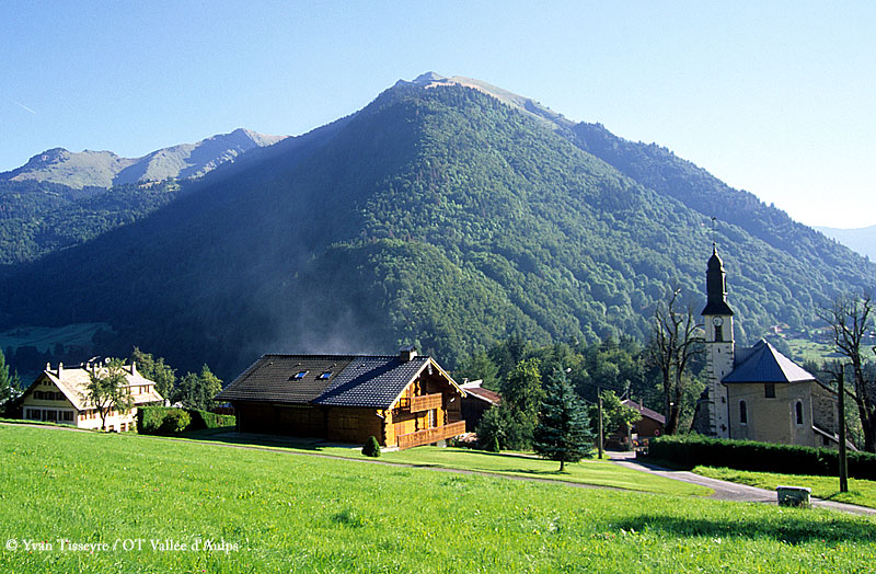 Essert-Romand Village, in the heart of the Vallée d'Aulps, Haute-Savoie, France